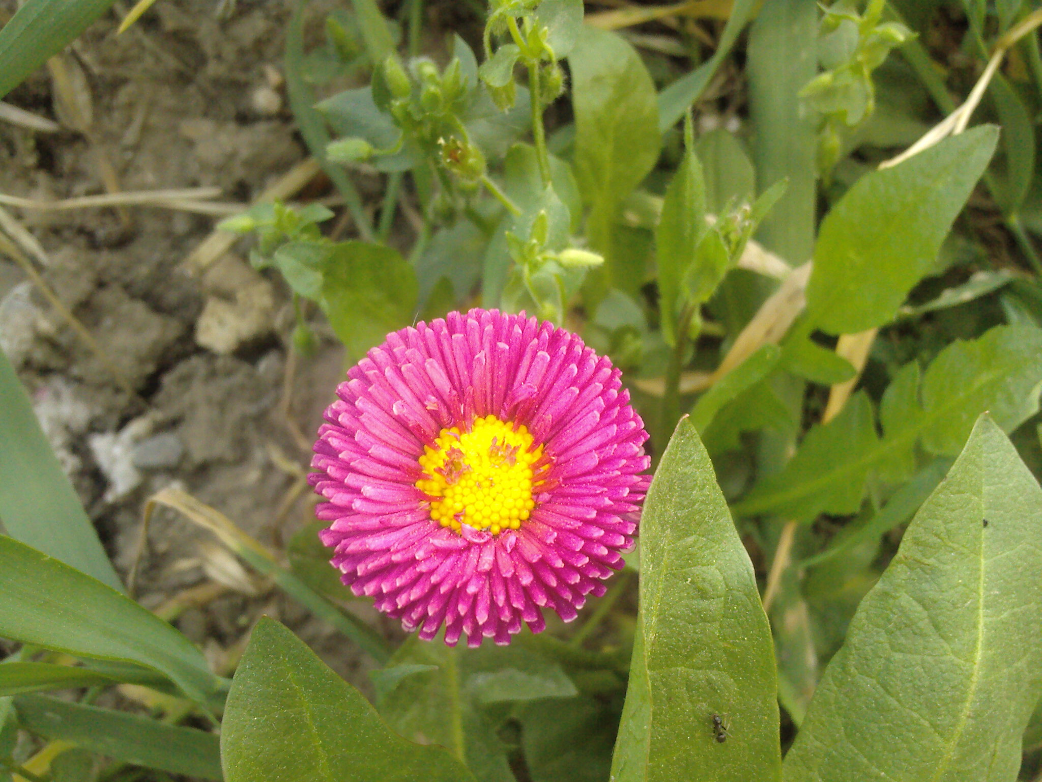 Bellis perennis